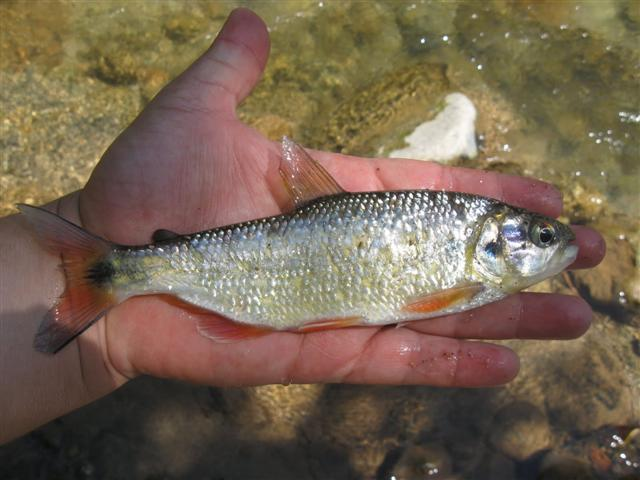 Brycon henni collected in Gomez Plata, Quebrada La Clara, Colombia.